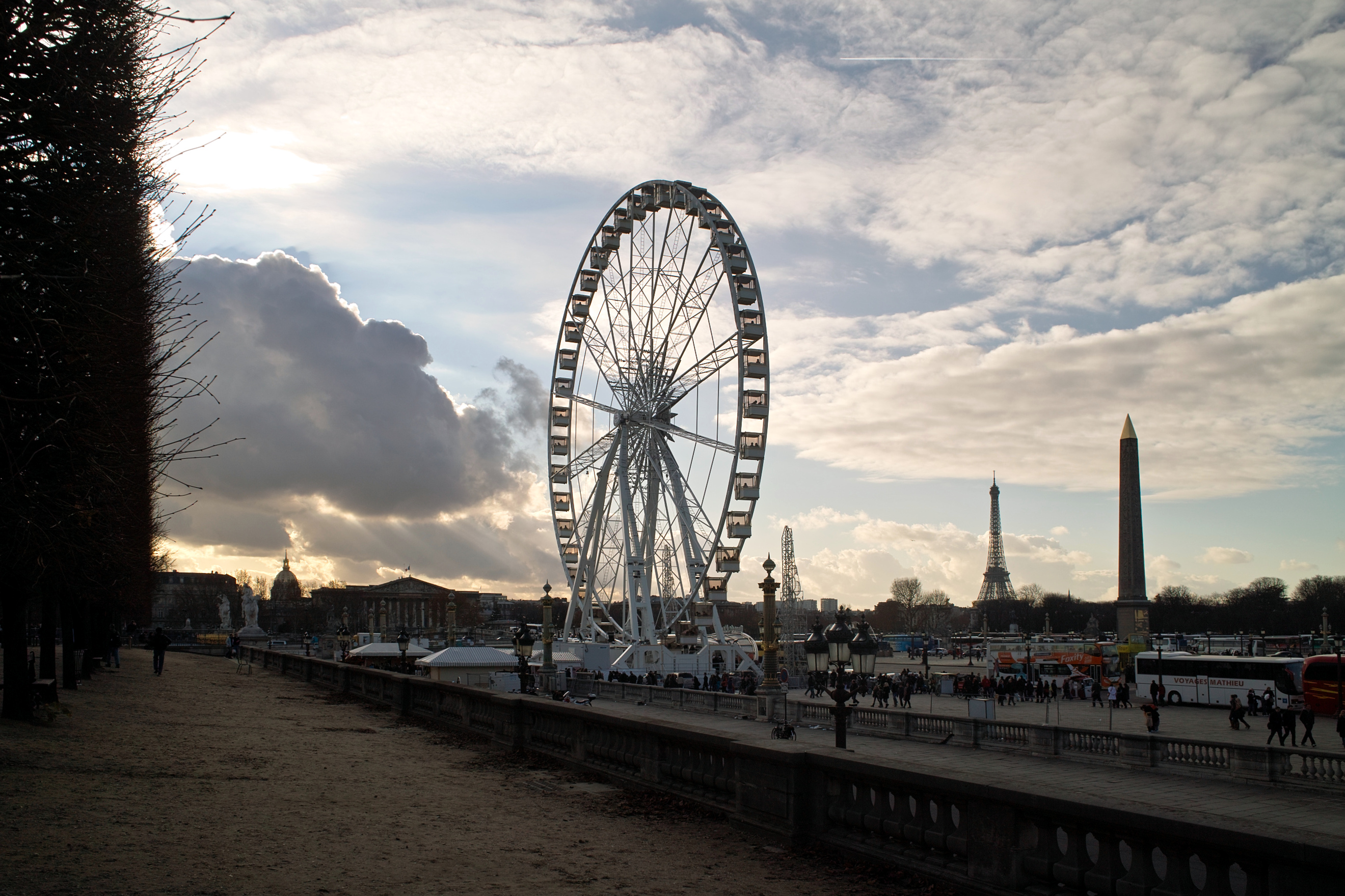 Roue de Paris, Place de la Concorde, Paris